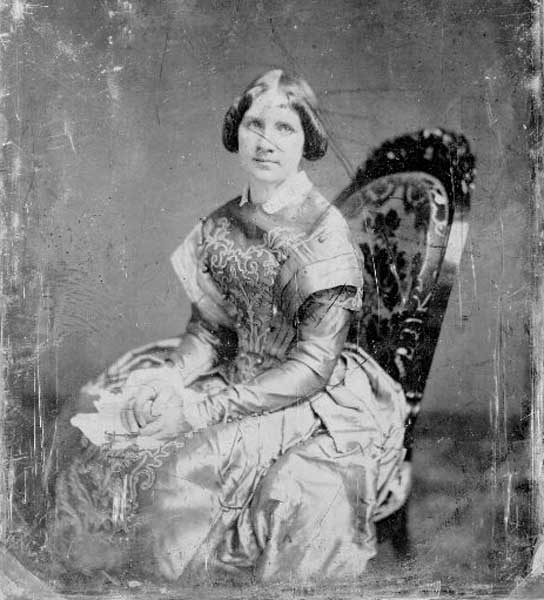 Jenny Lind, three-quarter length portrait of a woman, three-quarters to the left, facing front, seated